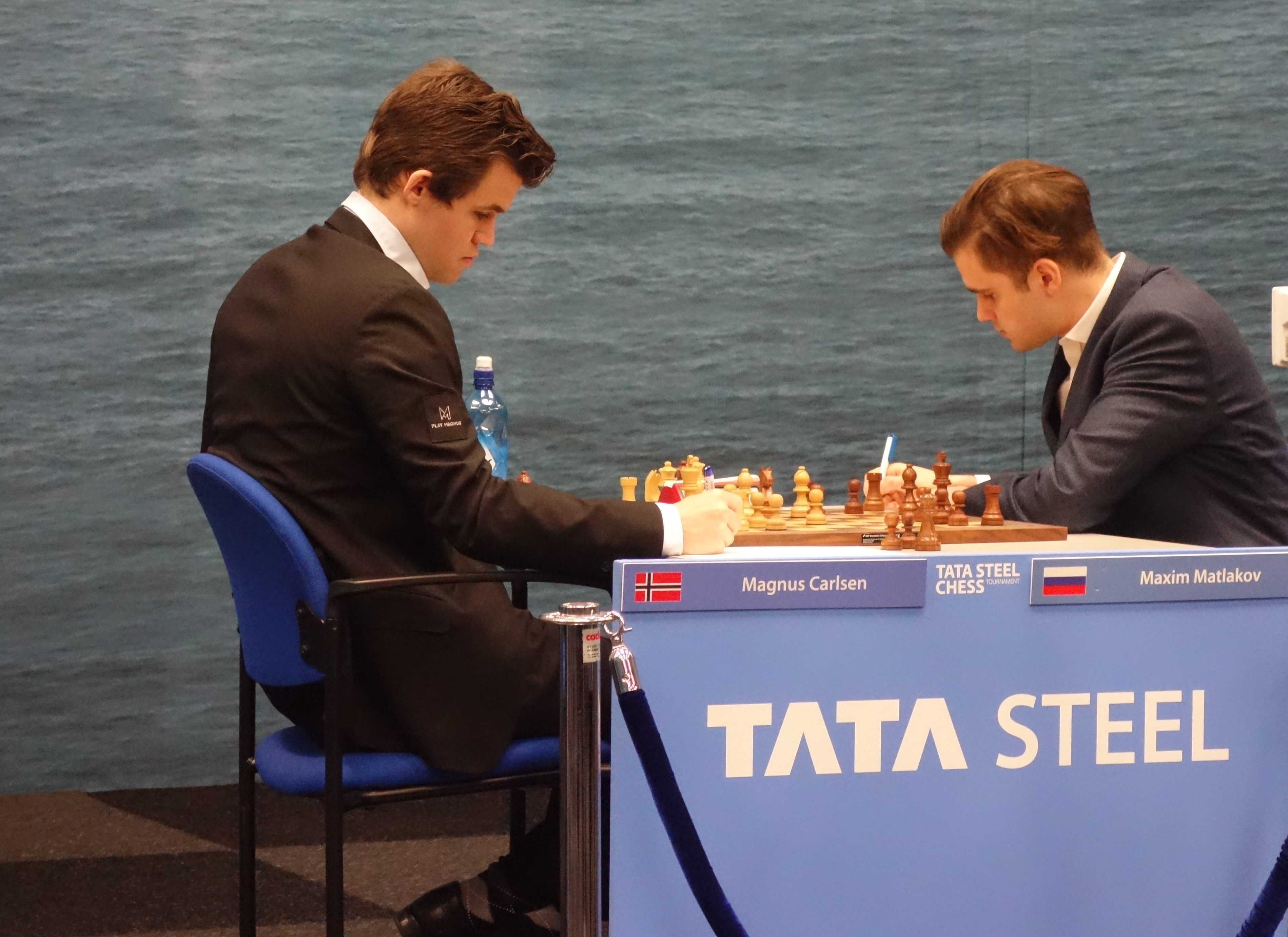 Tata Steel chess tournament 2018, Wijk aan Zee. Carlsen vs. Matlakov.